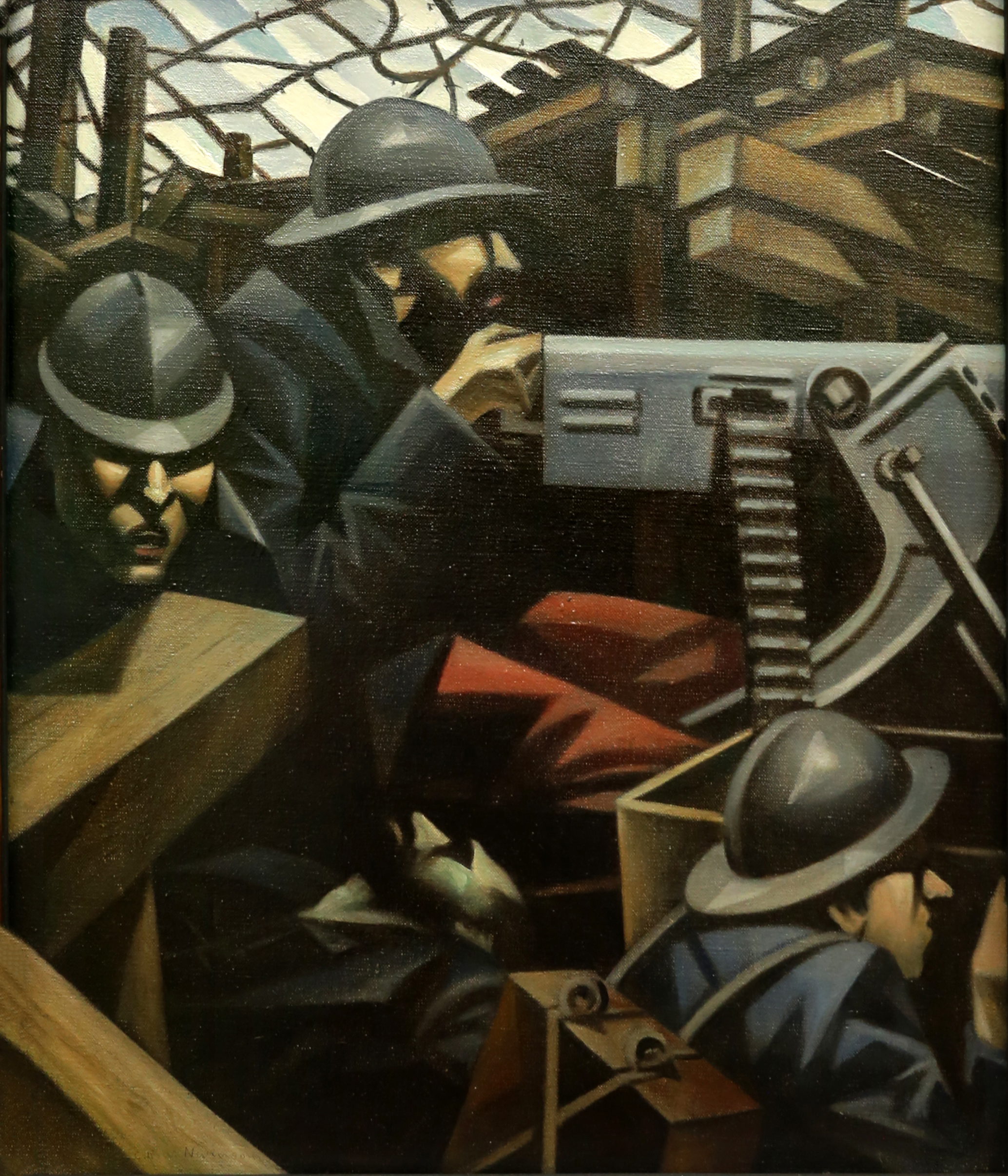 Paintings in Tate Britain